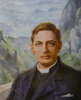 Portait of Rev. W.S.Senior, produced and fully owned by author's institution.